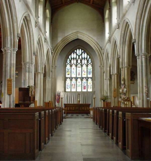 photo taken by lonpicman